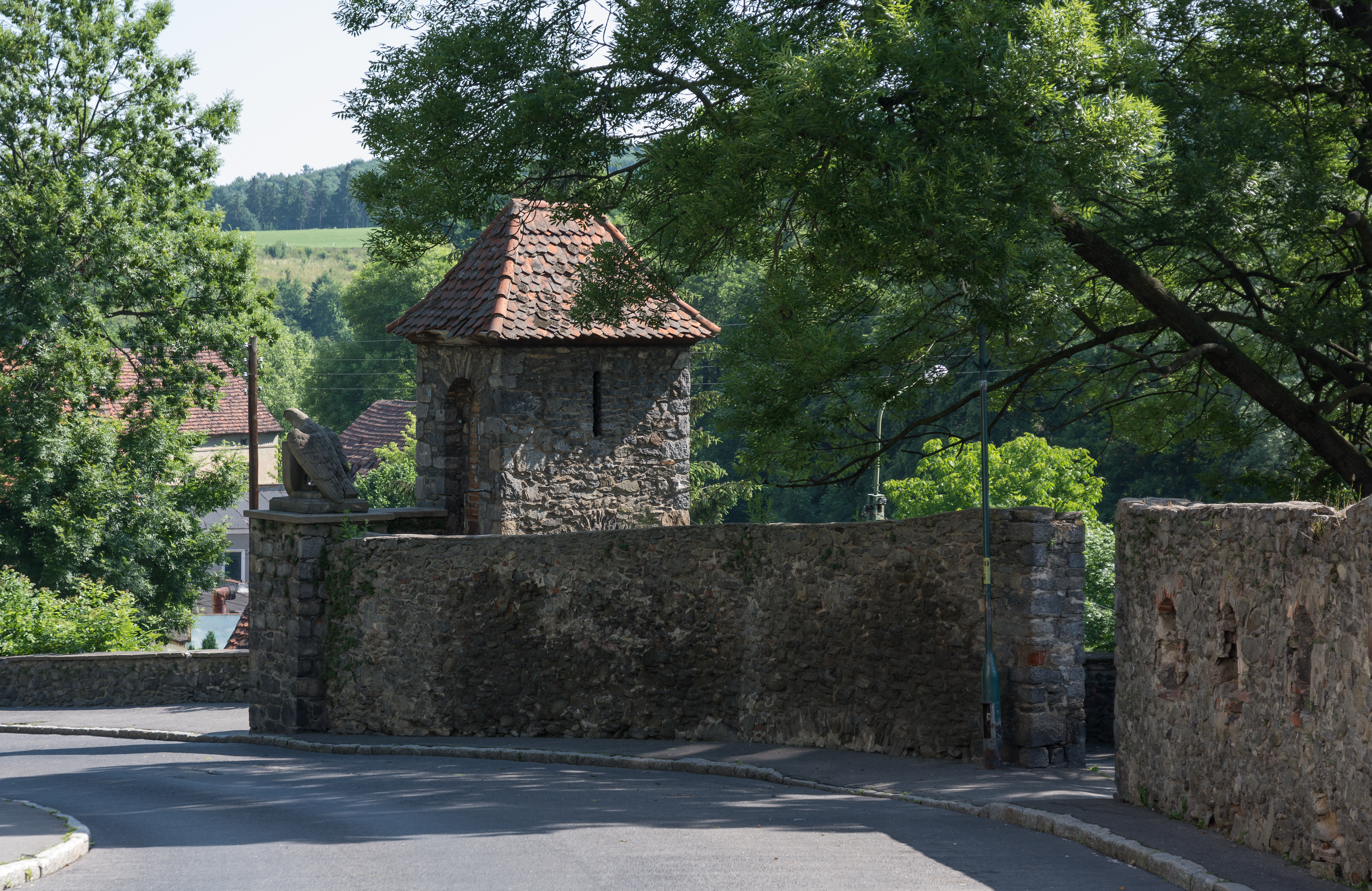 Lower Gate in Niemcza